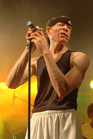 Dancehall artist Yellowman performing with Sagittarius Band at Reggae Jam Bersenbrück 2007